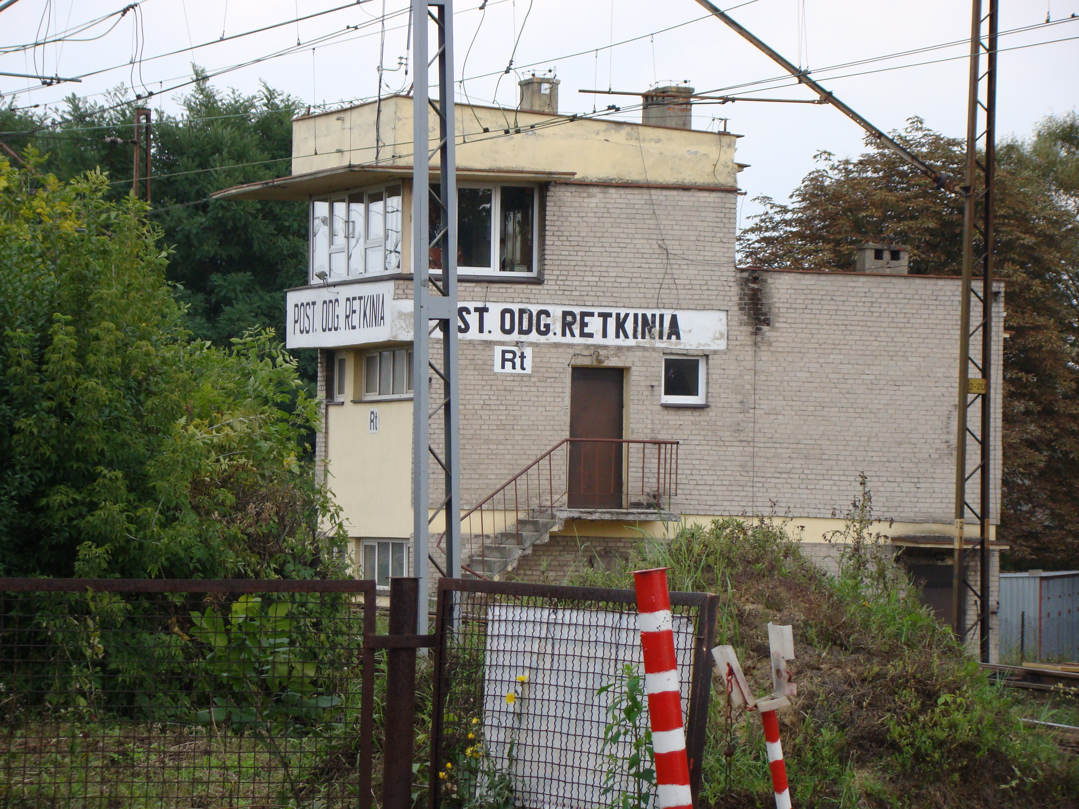 Rail transport in Łódź